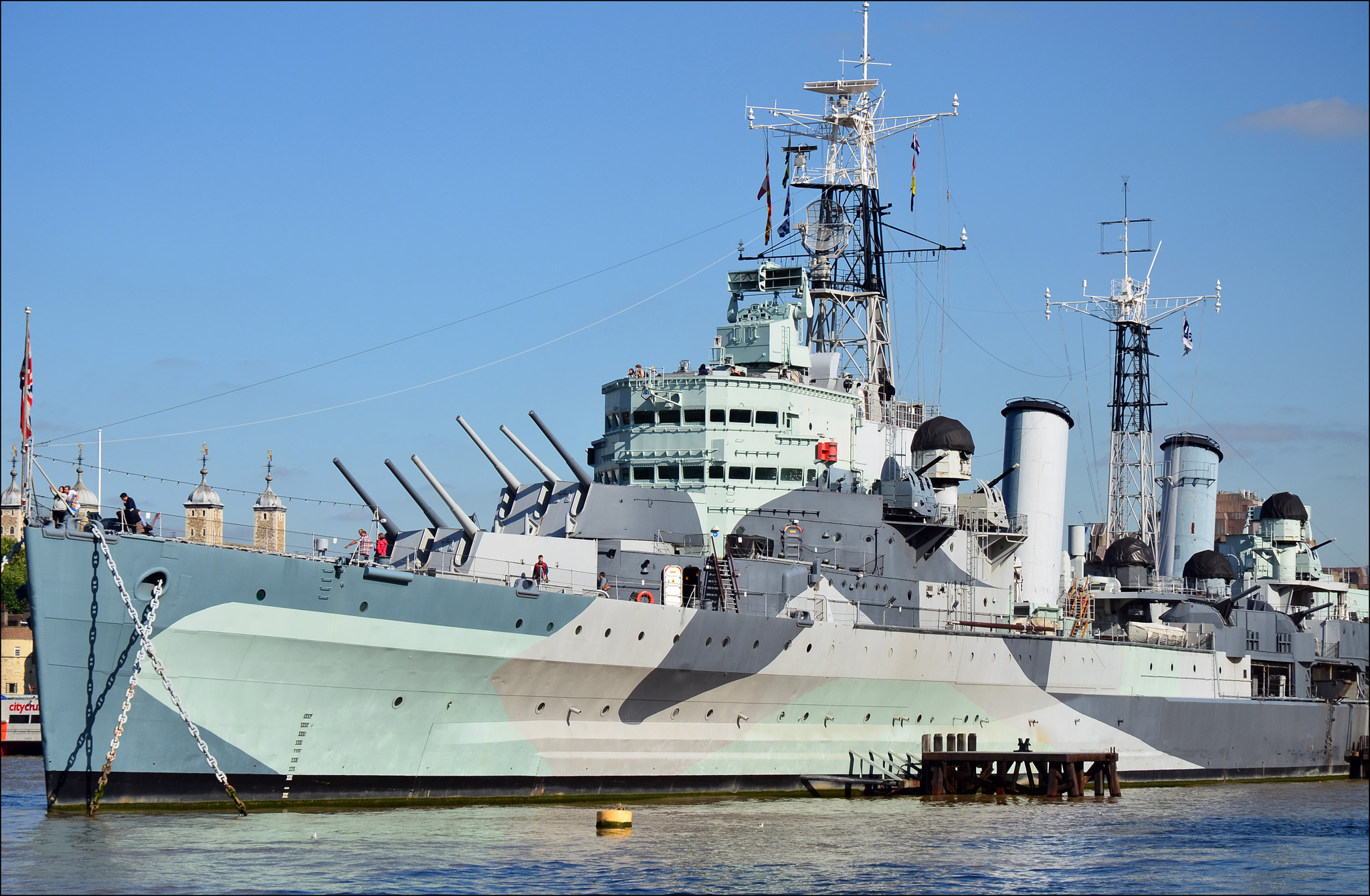 Warship built by Harland and Wolff, commissioned in 1939. WW2 service included the Arctic Campaign and the Invasion of Normandy. In 1971 she became a museum ship and is now part of the Imperial War Museum. Tooley Street, London Borough of Southwark. ( CC BY-SA which means anyone can freely use this image file anywhere, provided accompanied by the credit: Photo by George Rex.)